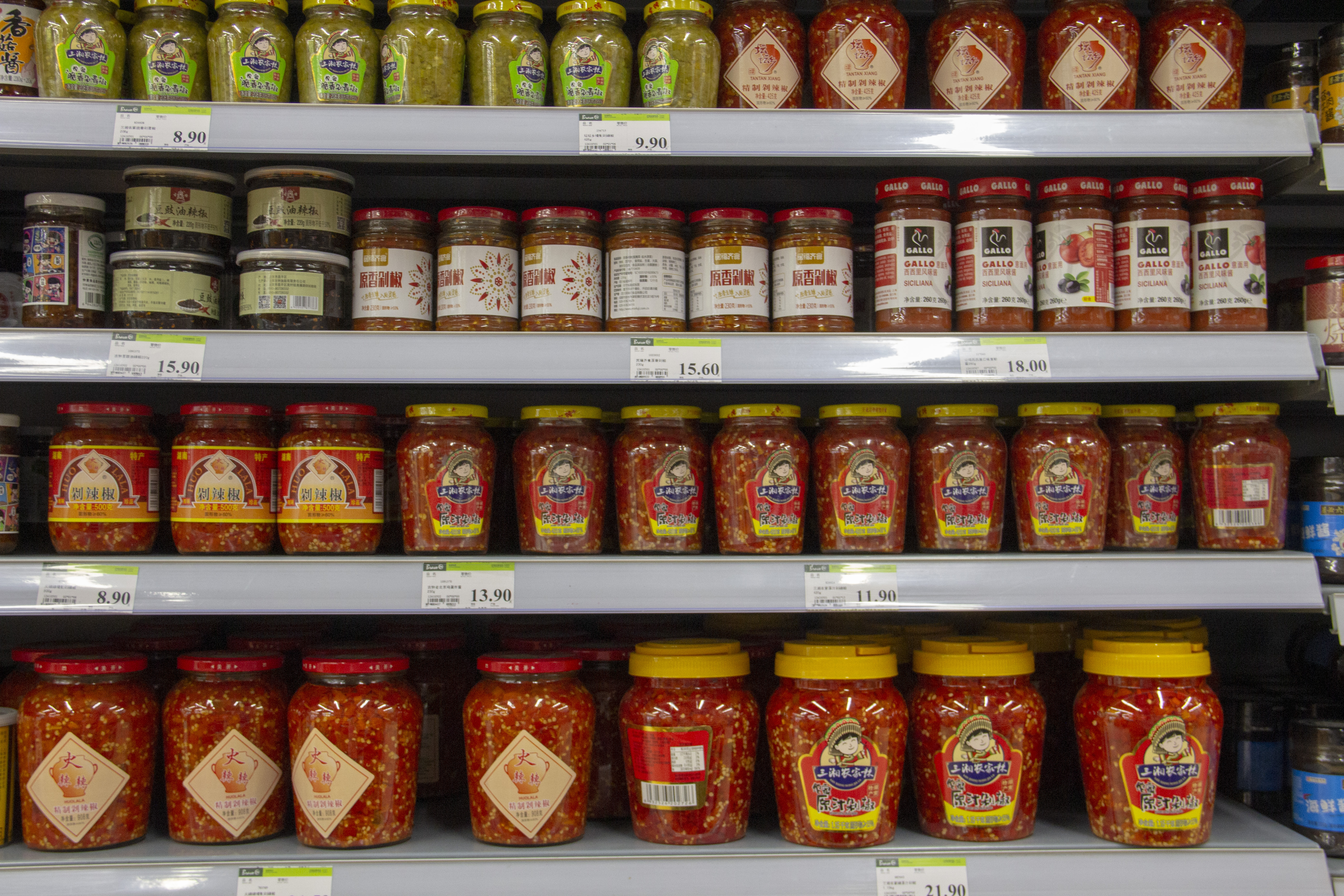 chopped chilli on a shelf